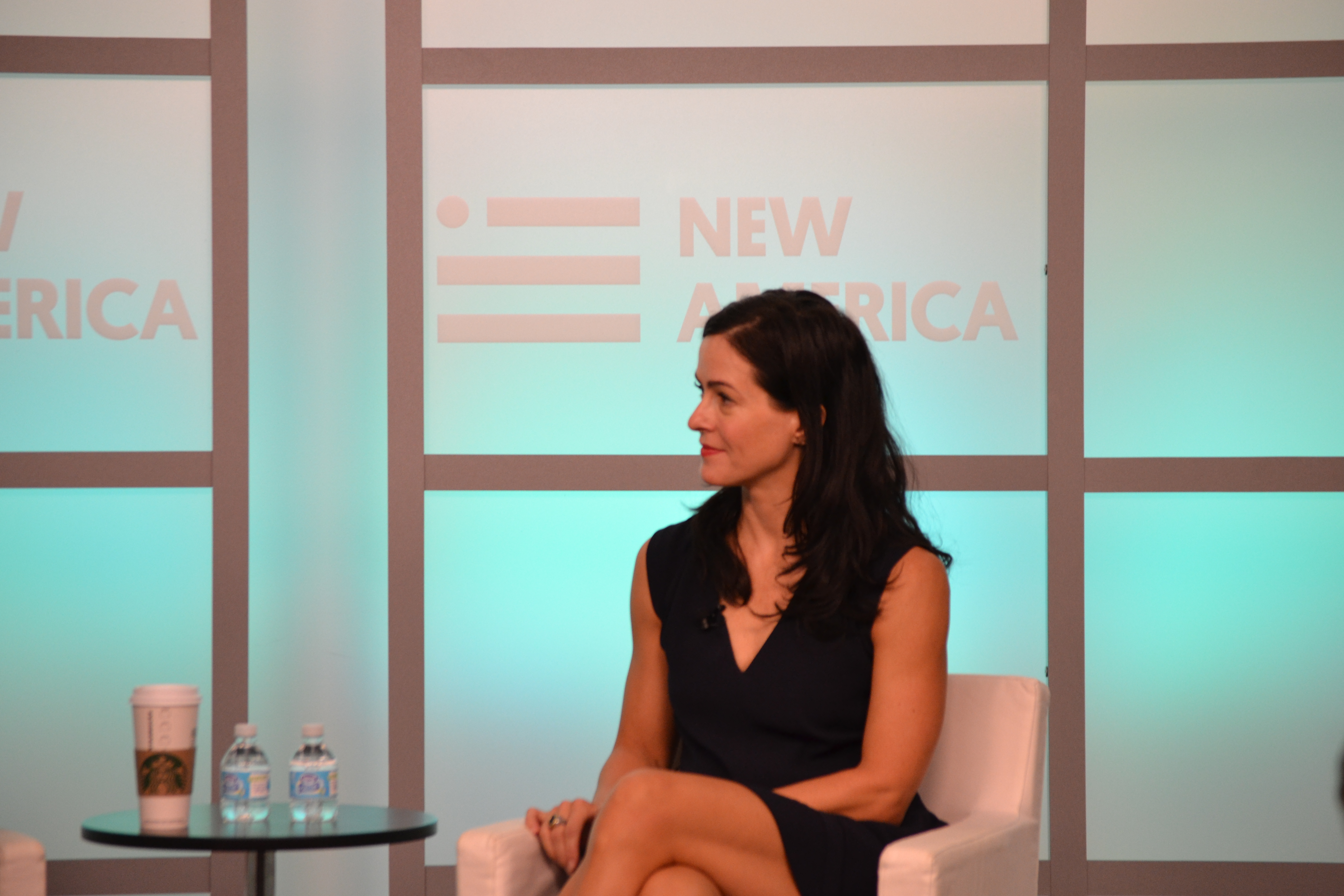 Bethany McLean, Contributing Editor, Vanity Fair Magazine Author, Shaky Ground: The Strange Saga of the U.S. Mortgage Giants